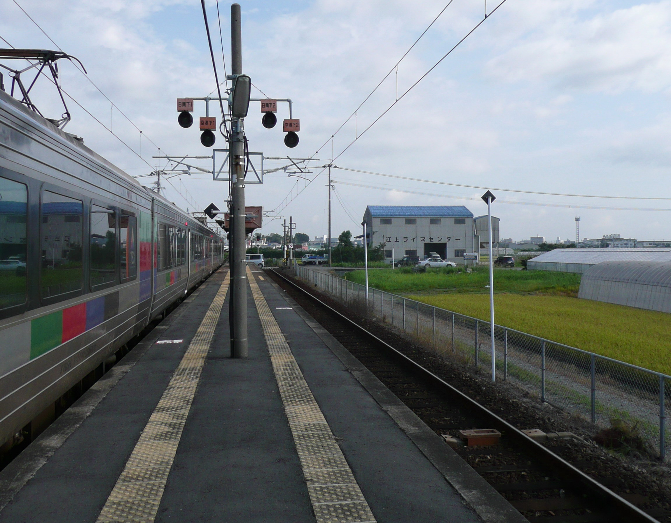 Tayoshi Station platform